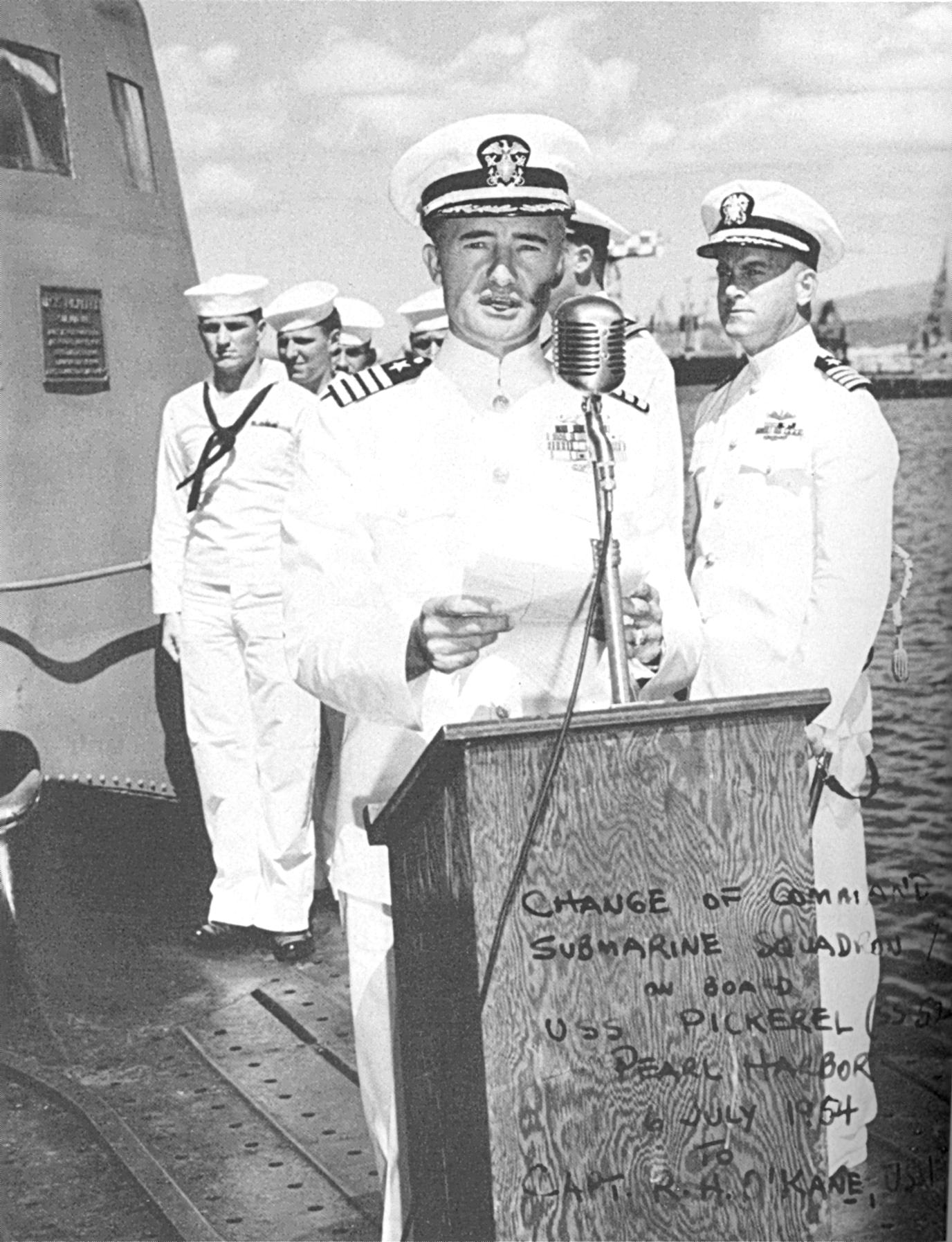 Captain Ignatius J. Galantin at change of command ceremony relinquishing command of Submarine Squadron 7, Pearl Harbor, to Captain R.H. O'Kane, July 6, 1954.